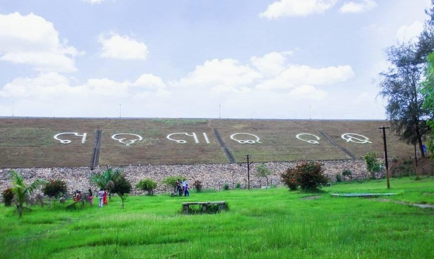 The Khadkhai Dam